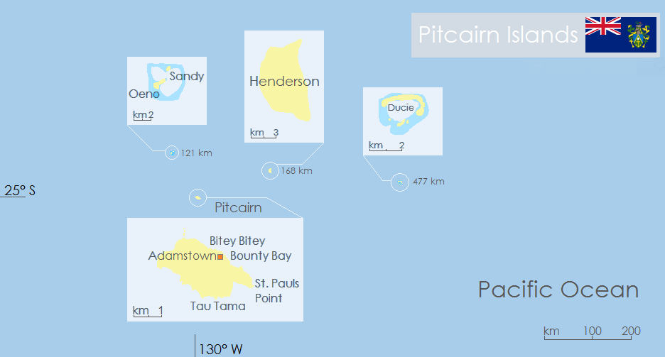 Map of Pitcairn by Aplusc Studio